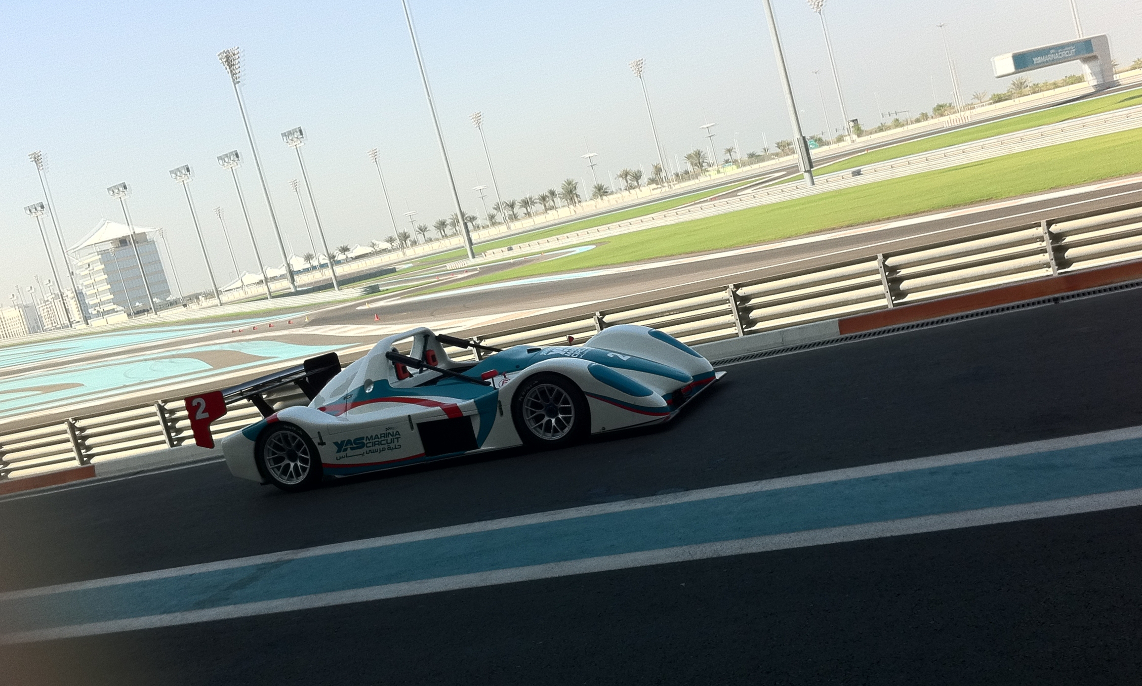 Super sport SST racing car In Yas Marina circuit Abu Dhabi